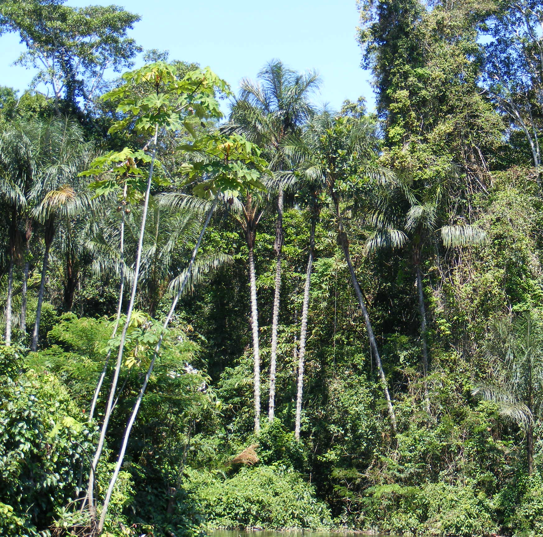 Amazonian rainforest — upper Amazon Basin, in the Loreto Region of northeastern Perú.